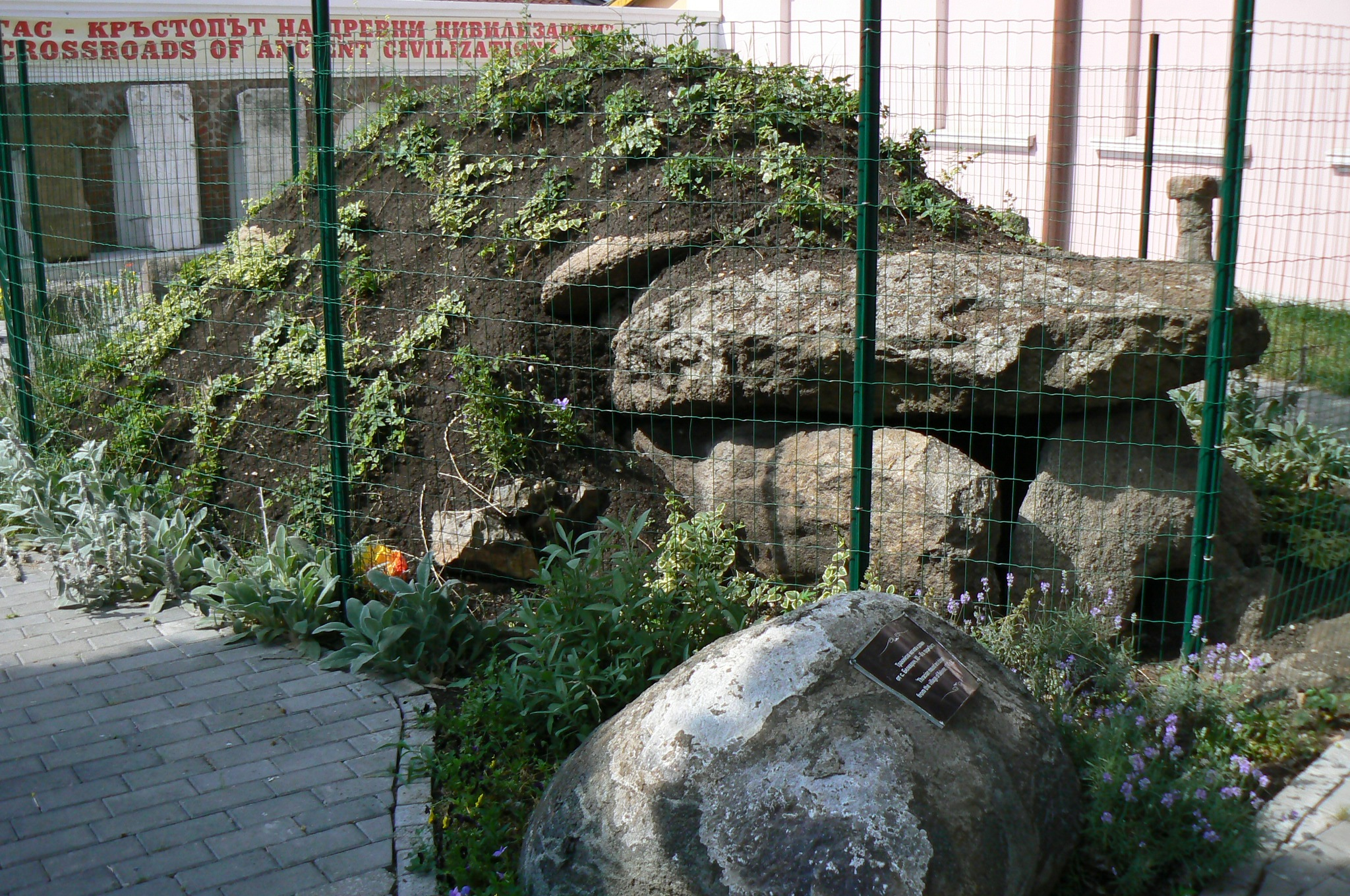 Thracian dolmen from village Belevren in the lapidarium of Burgas, Bulgaria. 9-7 century BC(?).